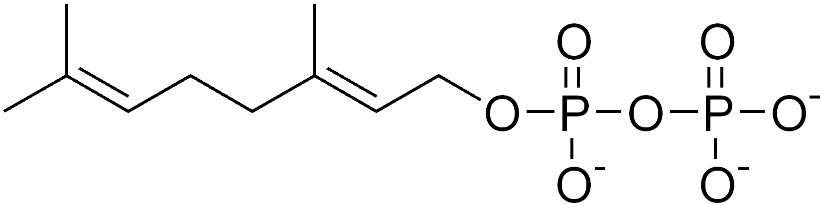 Chemical structure of geranyl pyrophosphate created with ChemDraw.